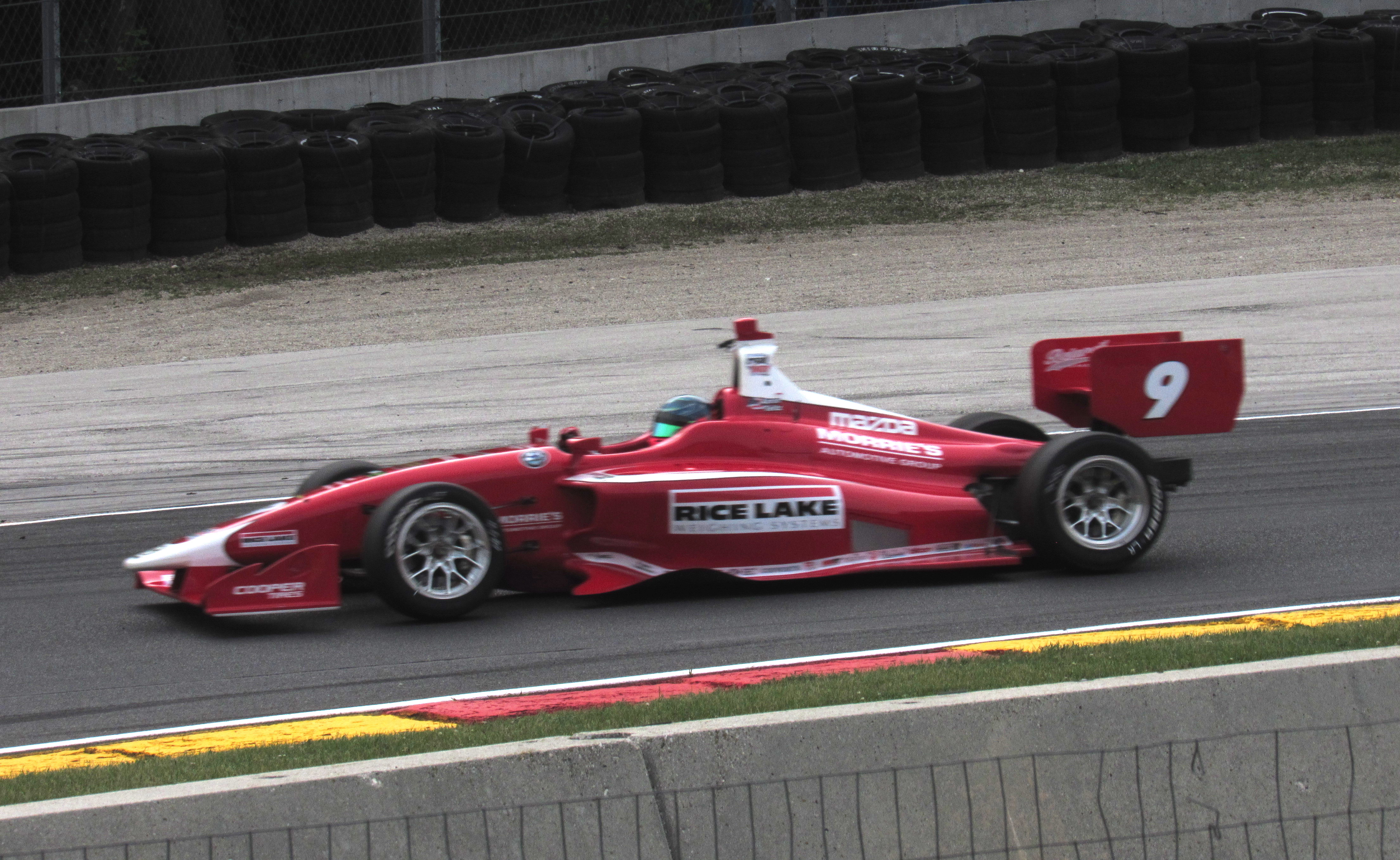 Aaron Telitz drives his Indy Lights car around Road America in 2018